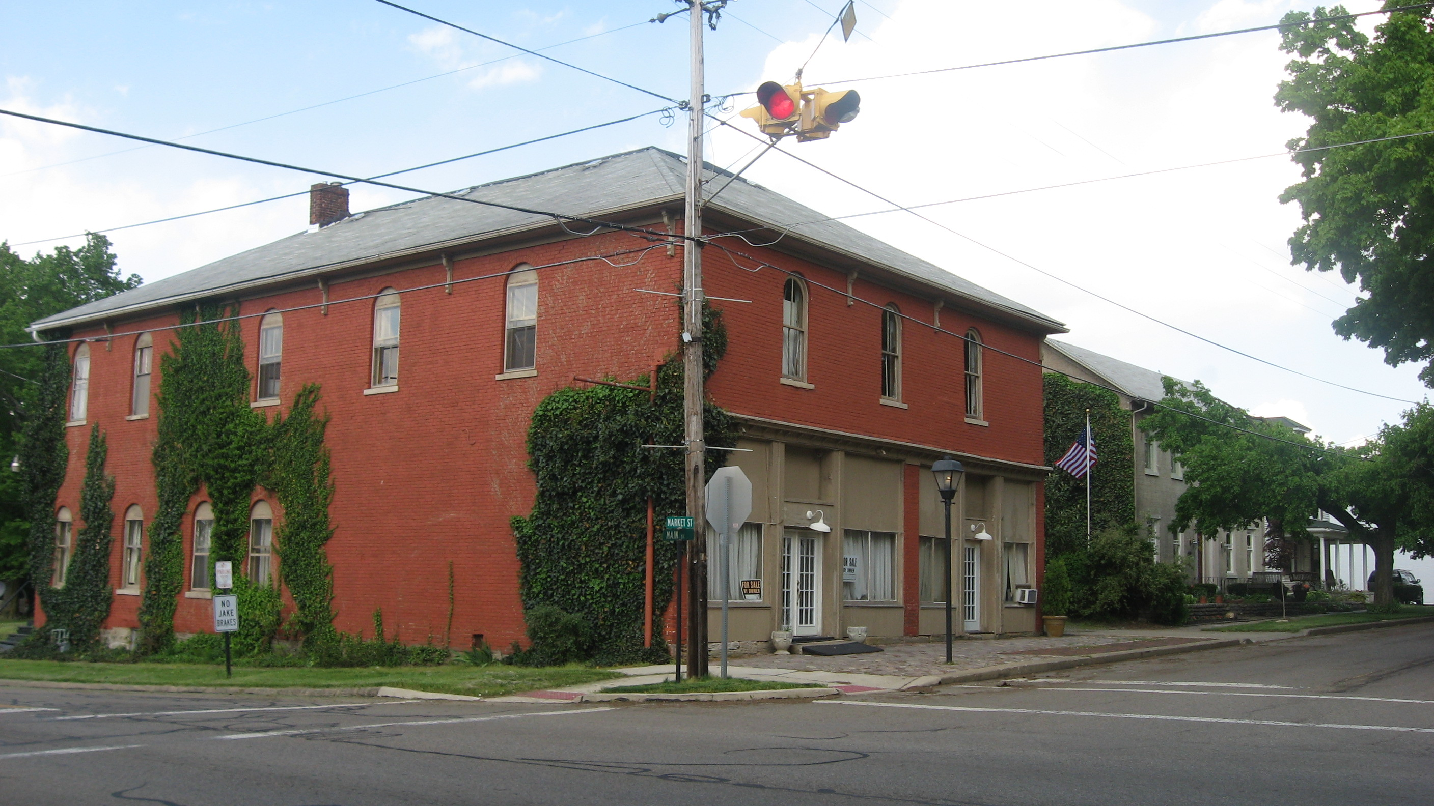 Buildings on the northern side of W. Main Street east of the Market Street (State Route 664) intersection in Rushville, Ohio, United States, seen looking eastward from the Columbus Street intersection. This block is part of the Lancaster West Main Street Historic District, a historic district that is listed on the National Register of Historic Places.